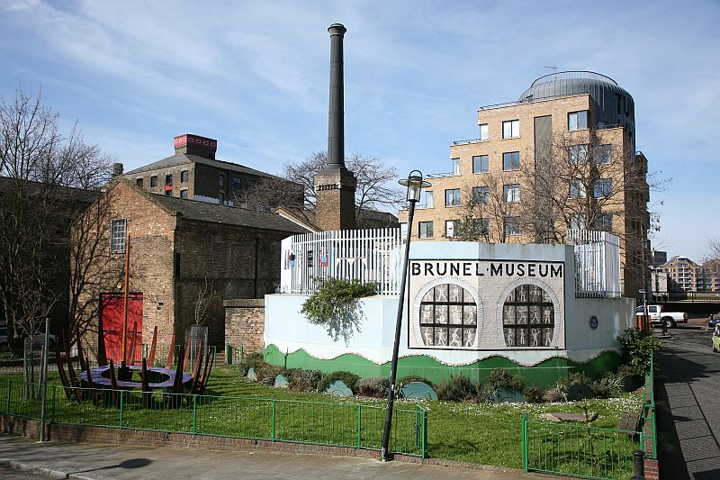 Showing the new mural of the tunnel shield painted on the Rotherhithe Shaft by local children.